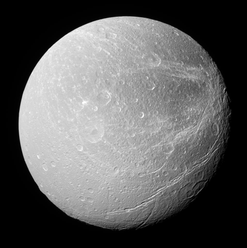 This southerly view of Dione shows enormous canyons extending from mid-latitudes on the trailing hemisphere, at right, to the moon's south polar region. This view looks toward the Saturn-facing side of Dione (1,126 kilometers, or 700 miles across) and is centered on 22 degrees south latitude, 359 degrees west longitude. North on Dione is up; the moon's south pole is seen at bottom. The image was taken in visible light with the Cassini spacecraft narrow-angle camera on Feb. 8, 2008. The view was obtained at a distance of approximately 211,000 kilometers (131,000 miles) from Dione and at a Sun-Dione-spacecraft, or phase, angle of 20 degrees. Image scale is 1 kilometer (0.6 mile) per pixel.